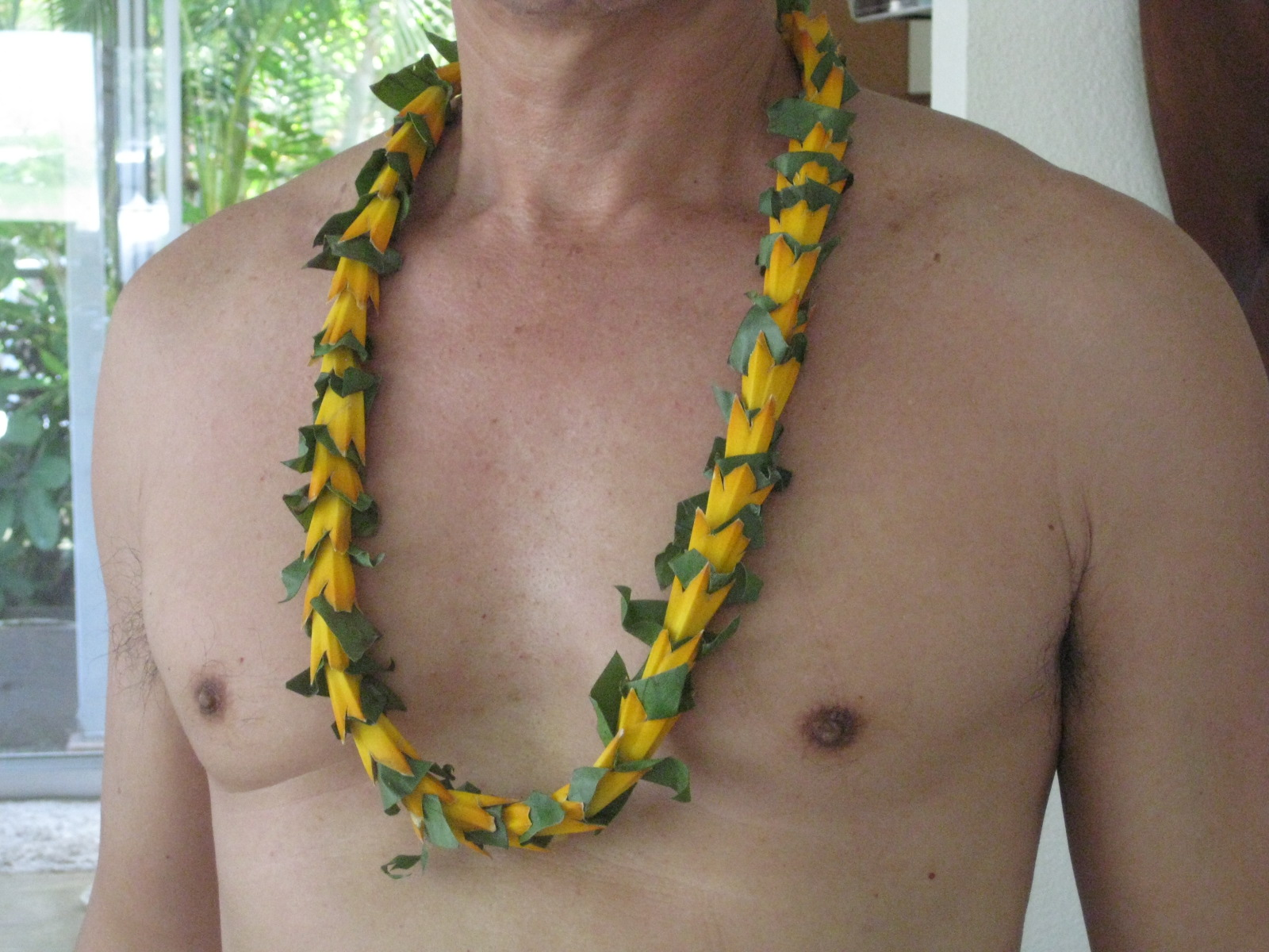 A hala lei worn by a Hawaiian man.